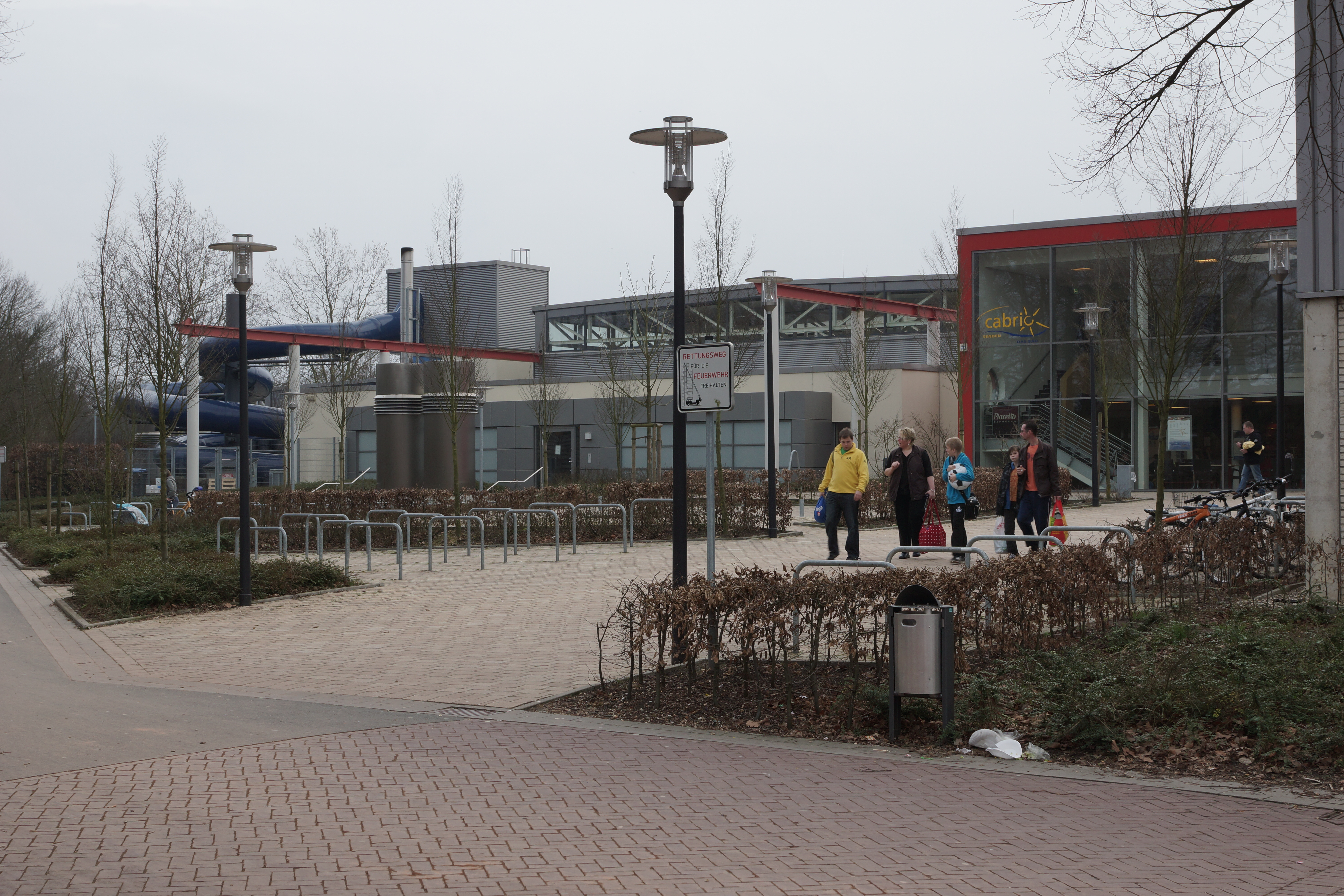 The leisure pool "Cabrio" in Senden (Westphalia).